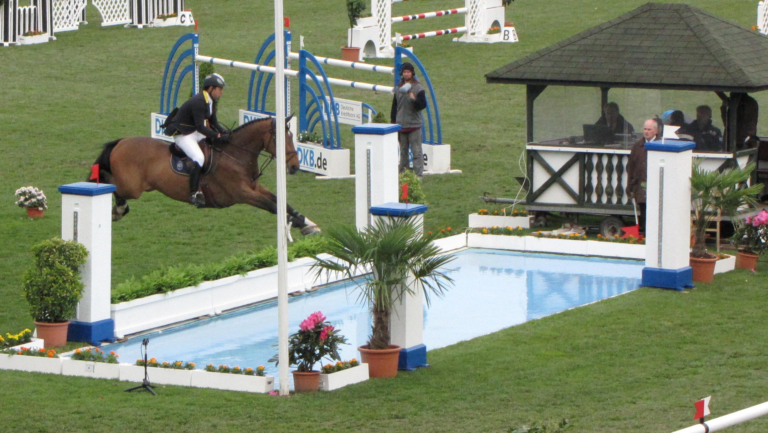 Kenneth Cheng, rider from Hong Kong, with Can Do. CSI 5*-Grand Prix (2010 Global Champions Tour of Germany) at the German show jumping and dressage derby, Hamburg.